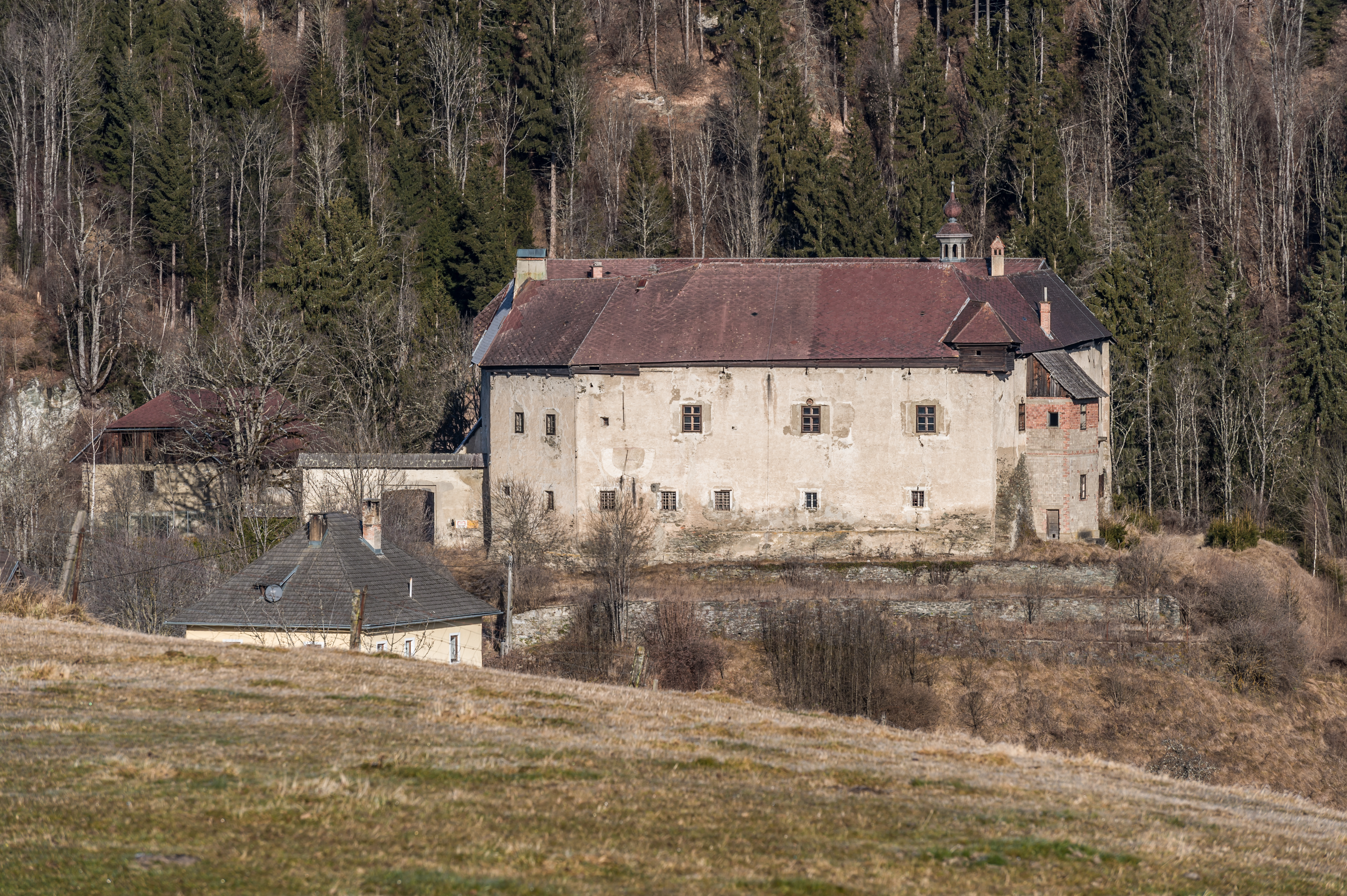 Castle on Schlossstrasse #1 in Grades, market town Metnitz, district St. Veit an der Glan, Carinthia, Austria, EU